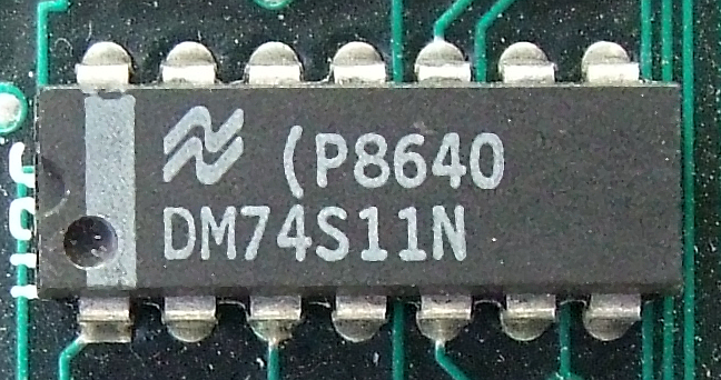 National Semiconductor DM74S11N IC. It is a 7411-series AND gate.